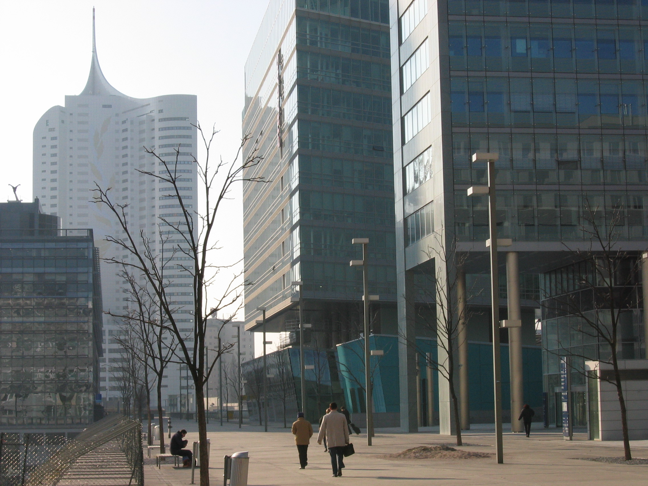 Street scene in the Donau city in Vienna